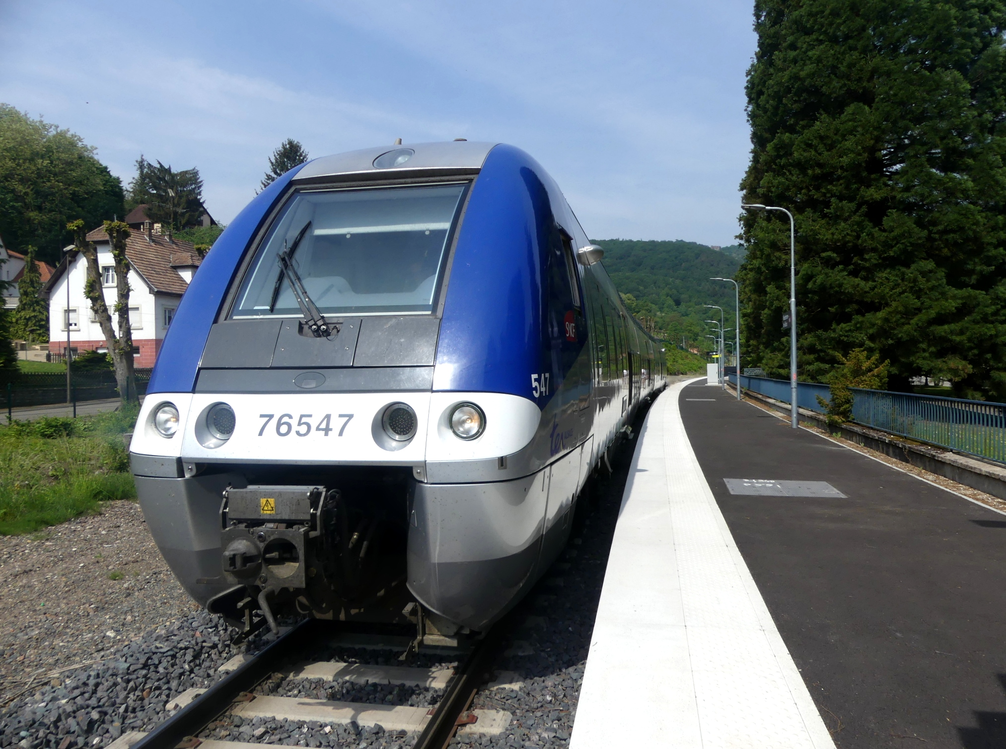 Sight of a French SNCF Class X 76500 at Niederbronn-les-Bains railway station, in North-western Alsace. This regional train is bound for Strasbourg.